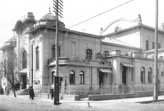 Marhanishvili Theatre building